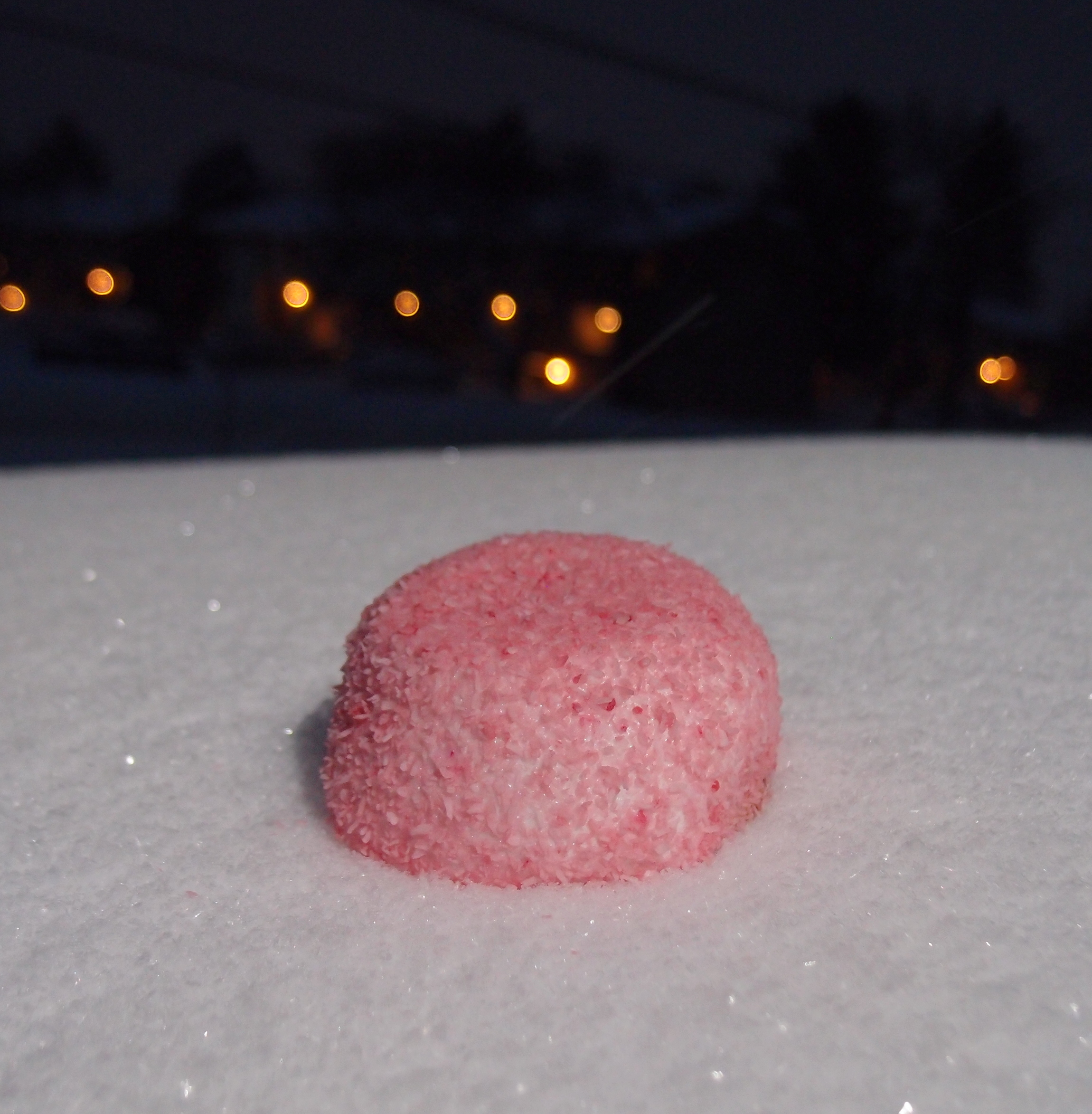 A classic pink Snoball. In the snow.